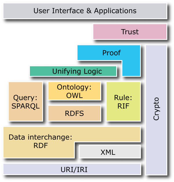 Semantic Web Stack